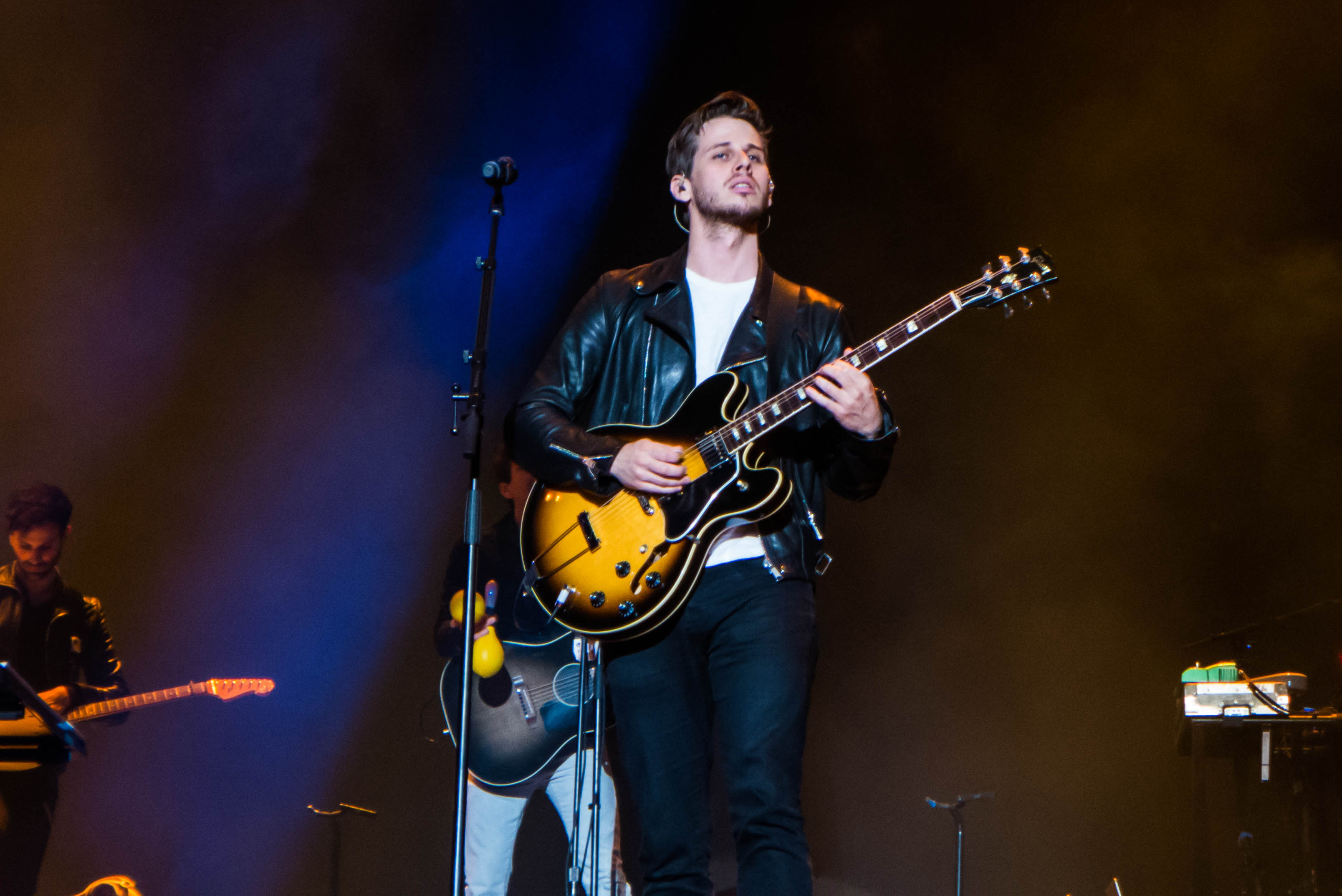 Foster the People performing at Bilbao BBK Live 2014 on July 11, 2014